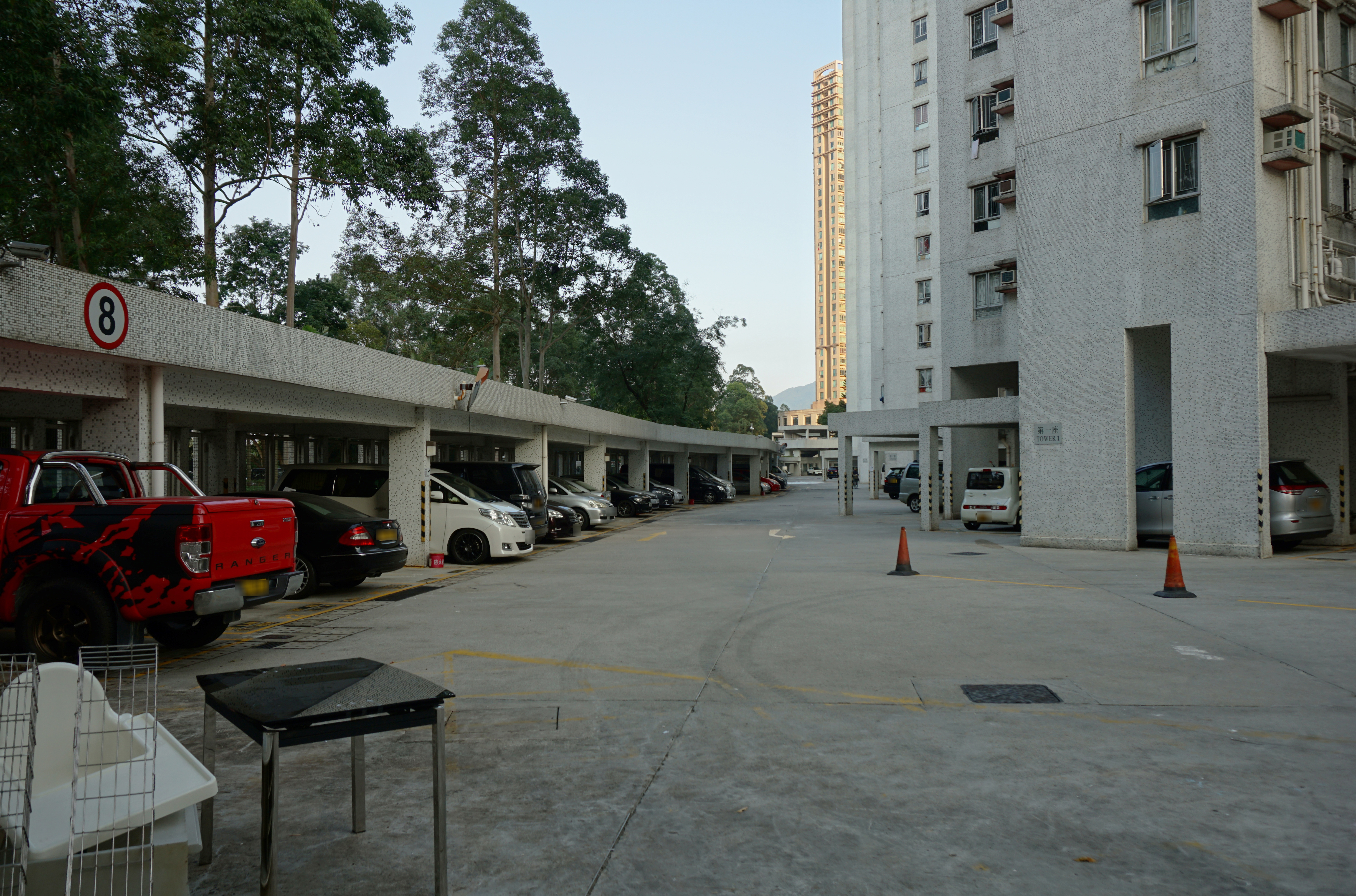 Wing Fai Centre in Fanling, Hong Kong.